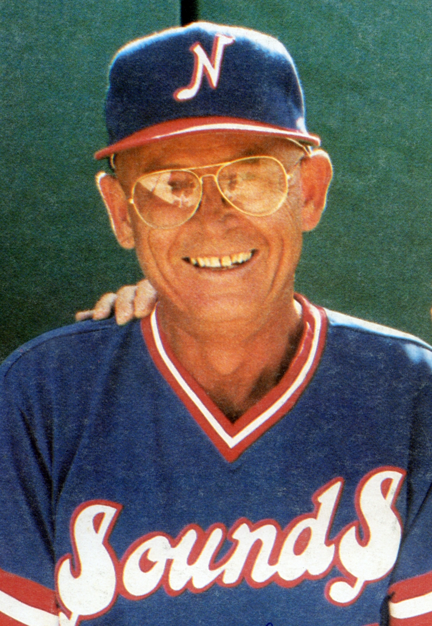 Manager Lee Walls of the 1985 Nashville Sounds Minor League Baseball team of the American Association